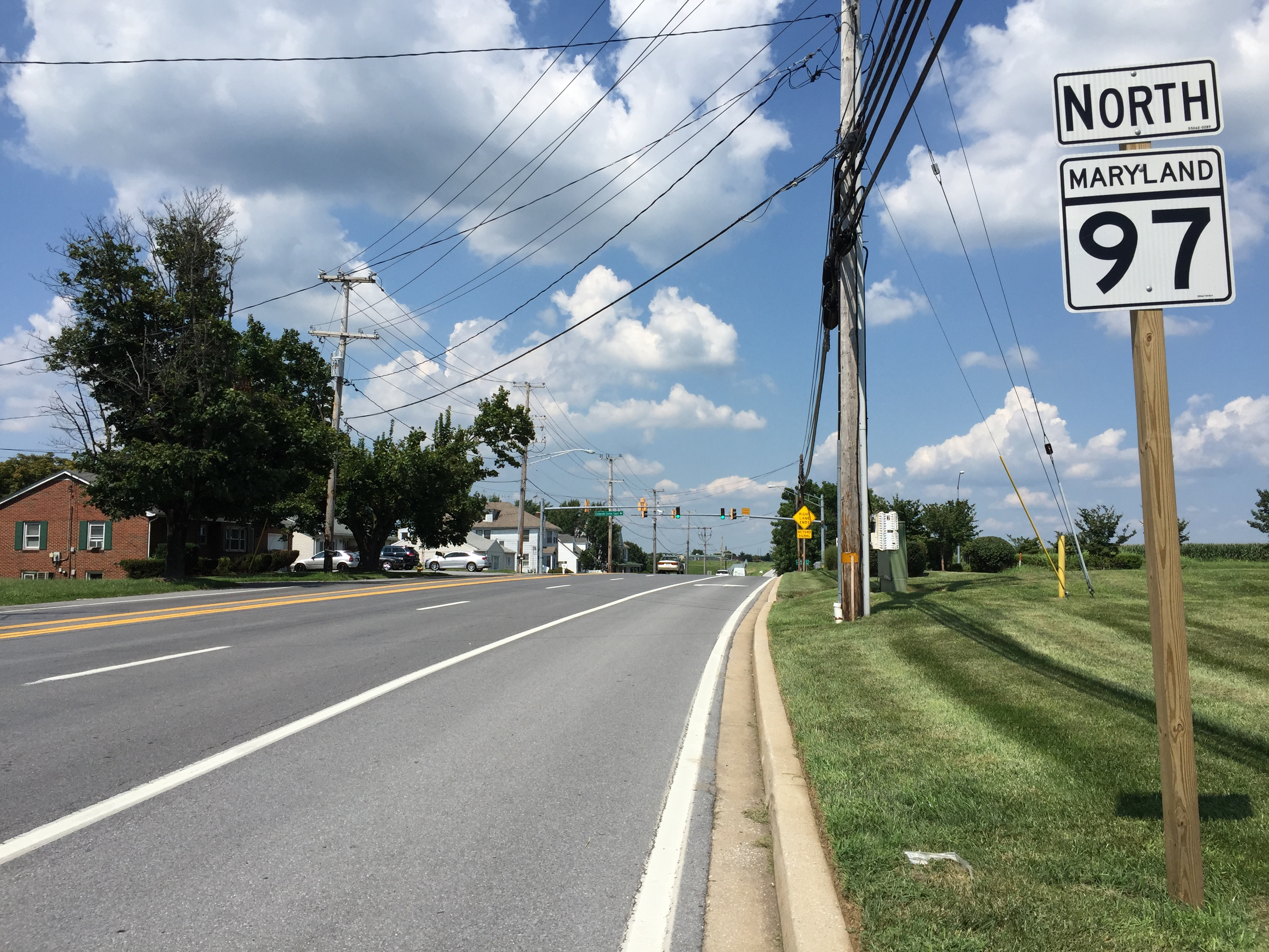 View north along Maryland State Route 97 (Littlestown Pike) between Wyndtryst Drive and Kriders Church Road in Westminster, Carroll County, Maryland